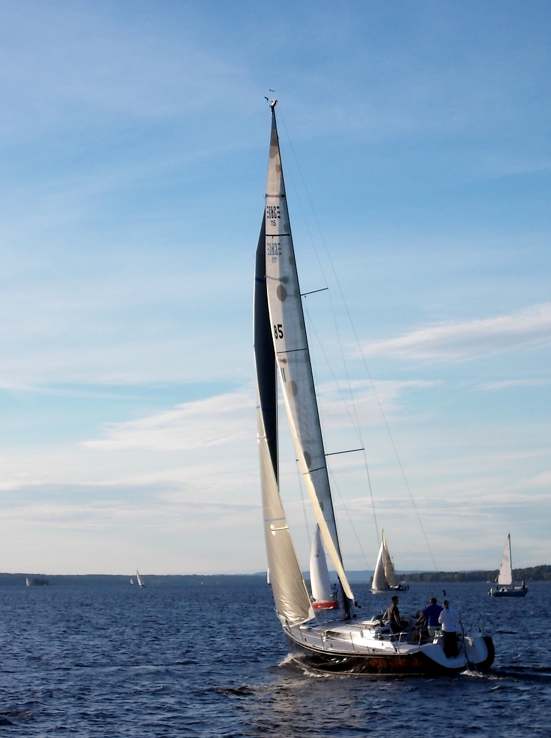 C&C 115 sailboat Wind Warrior on Lac Deschênes, part of the Ottawa River, Ottawa, Ontario, Canada